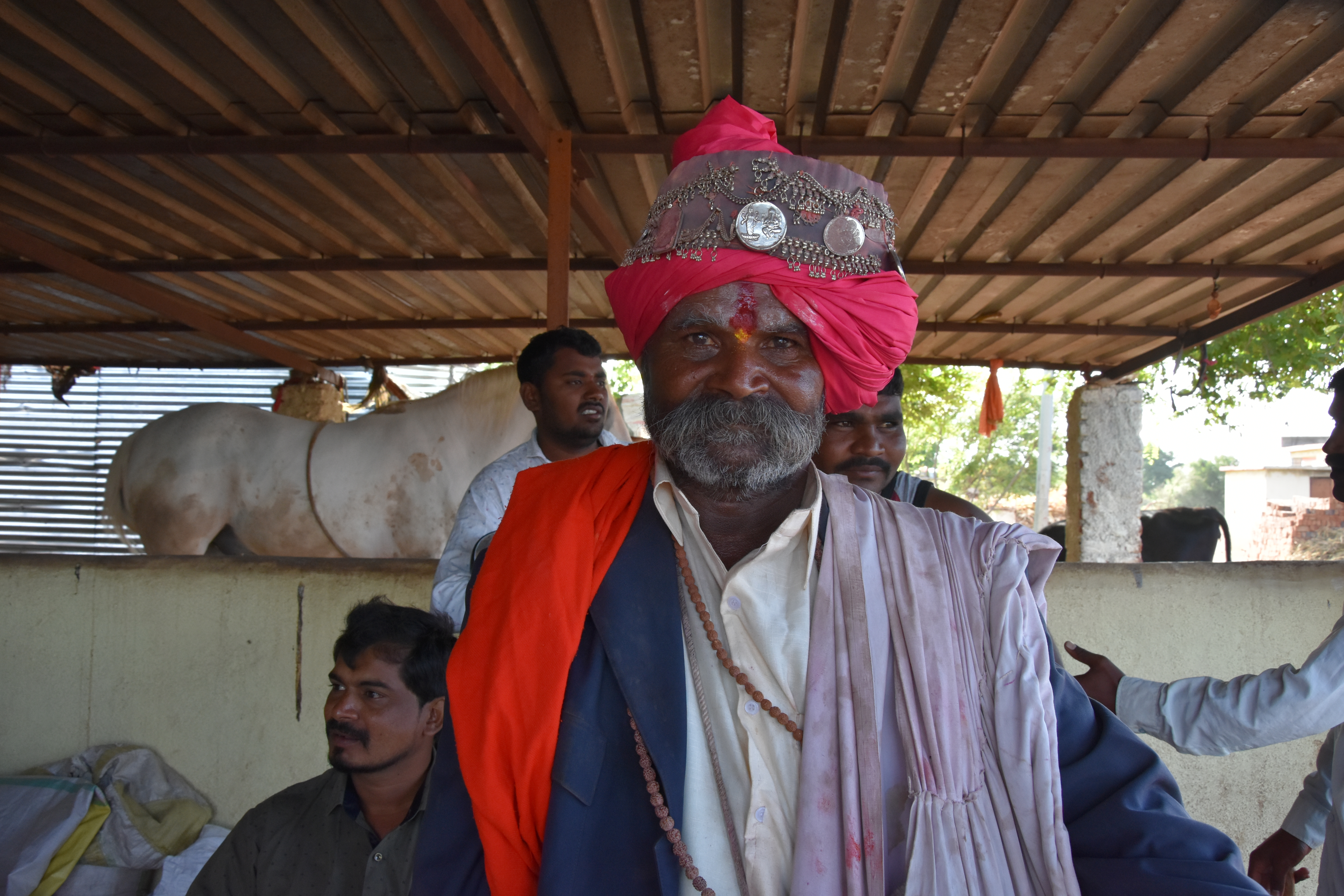 Folk artist from Maharashtra